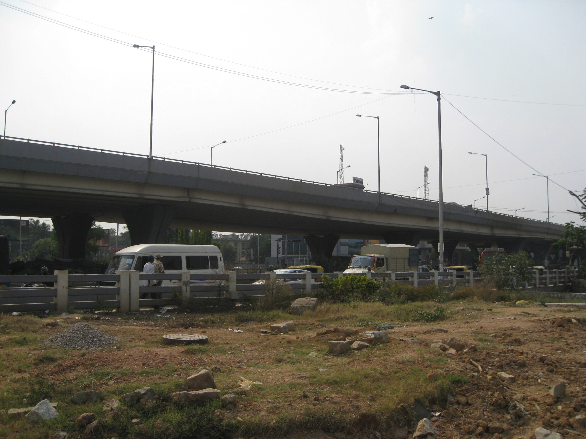 Flyover on Hosur Road, in front of the Central Silk Board.